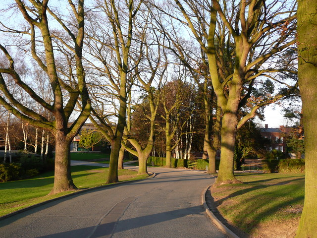 Footpath through Shrewsbury School grounds Taken on a sunny day in January